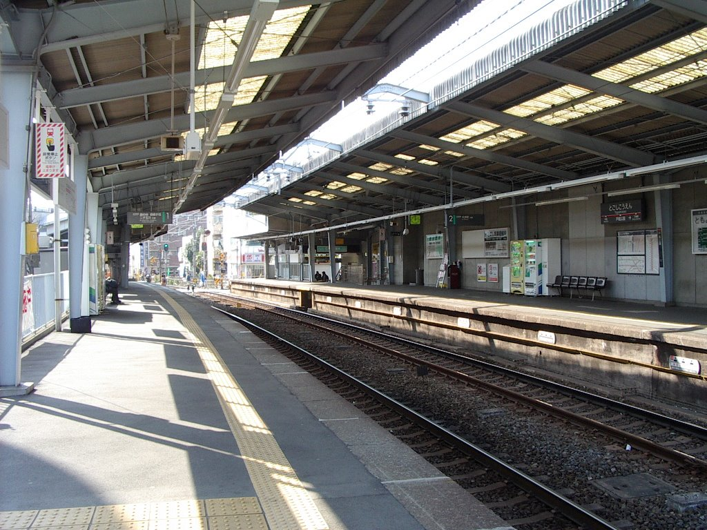 Togoshikouen station on Tokyu Ooimachi line.